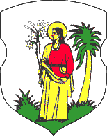 Coats of arms of Shereshevo, Belarus